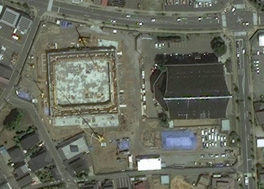 Kotobuki Arena Chikuma